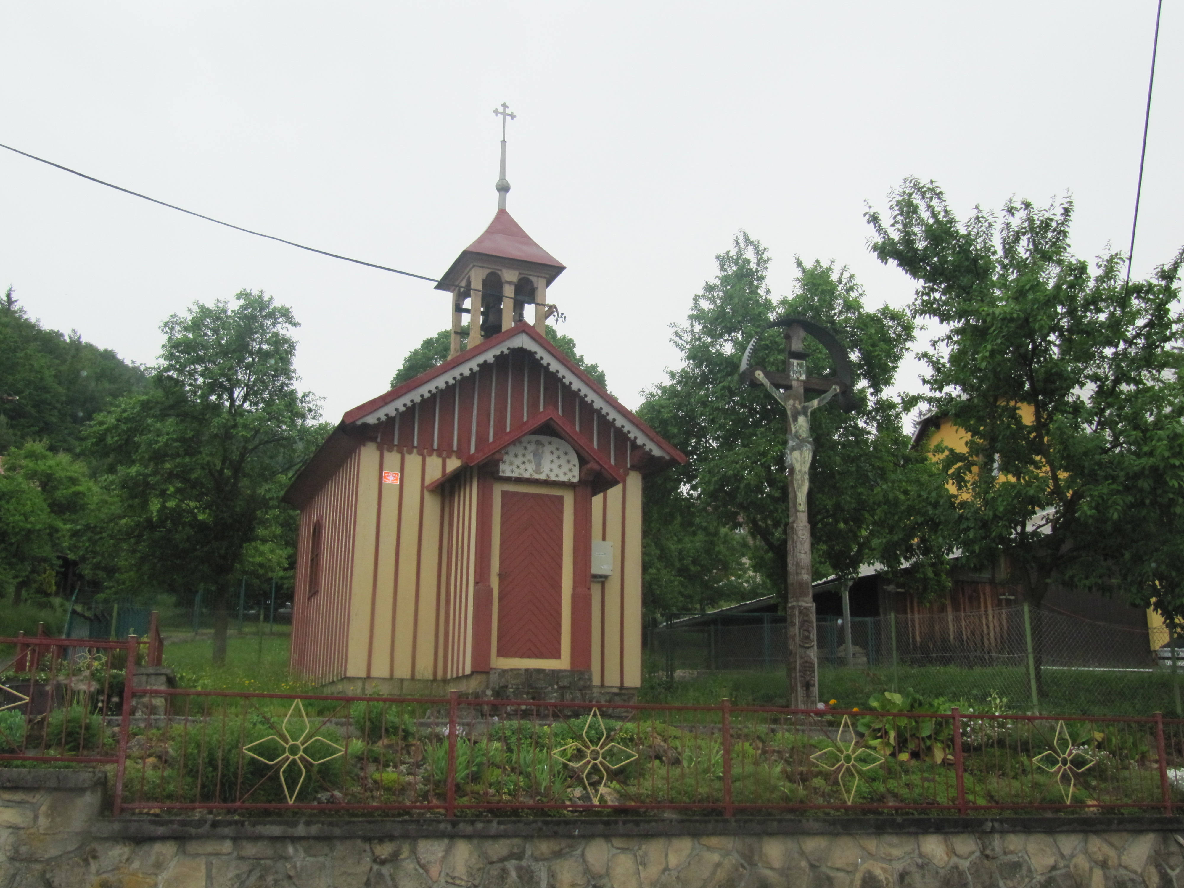 Vlčková in Zlín District, Czech Republic. Chapel and carved crucifix. This photograph was taken within the scope of the third year of the 'Czech Municipalities Photographs' grant.